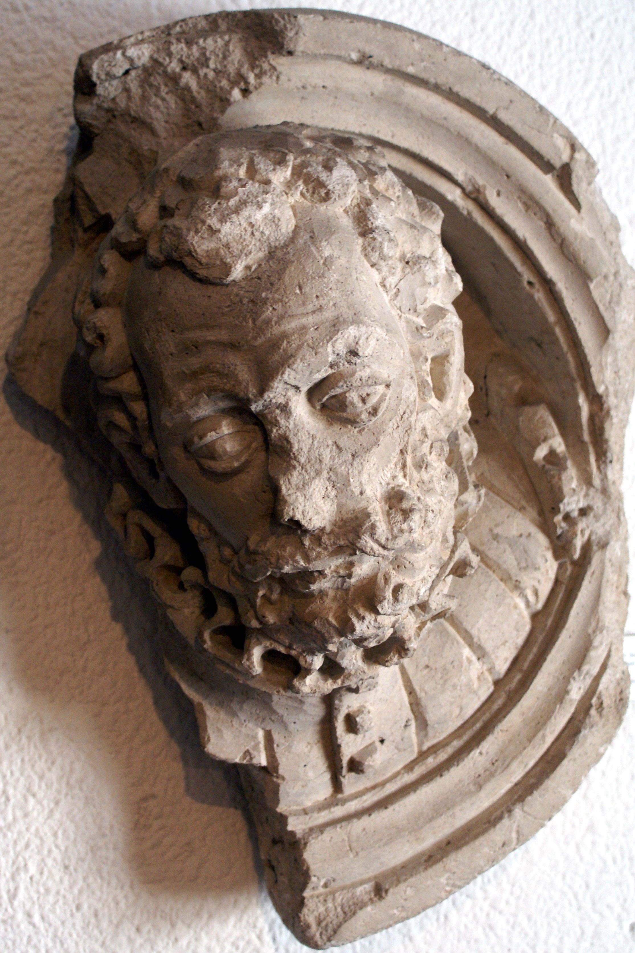 Bust of Fabio Nelli, a banker from Valladolid in the 16th century.